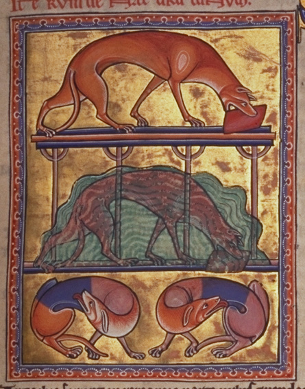 image Folio 19r "If a dog swims across a river carrying a piece of meat or anything of that sort in its mouth, and sees its shadow, it opens its mouth and in hastening to seize the other piece of meat, it loses the one it was carrying." Folio 19v Translation From the Aberdeen Bestiary (Aberdeen University Library MS 24) written and illuminated in England around 1200.